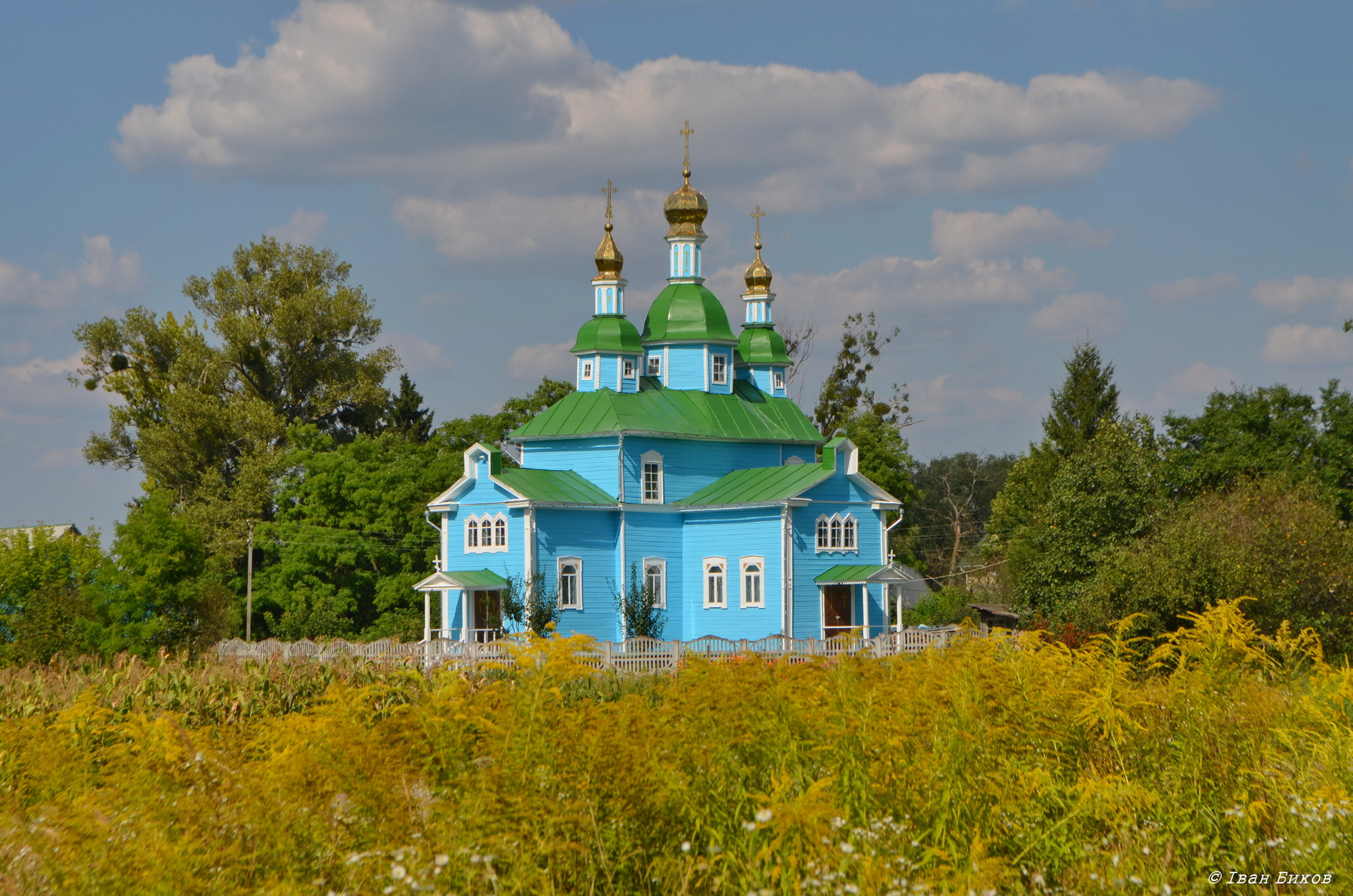 St. Onuphrius church, Lipovy Skitok, Kyiv Oblast, Ukraine